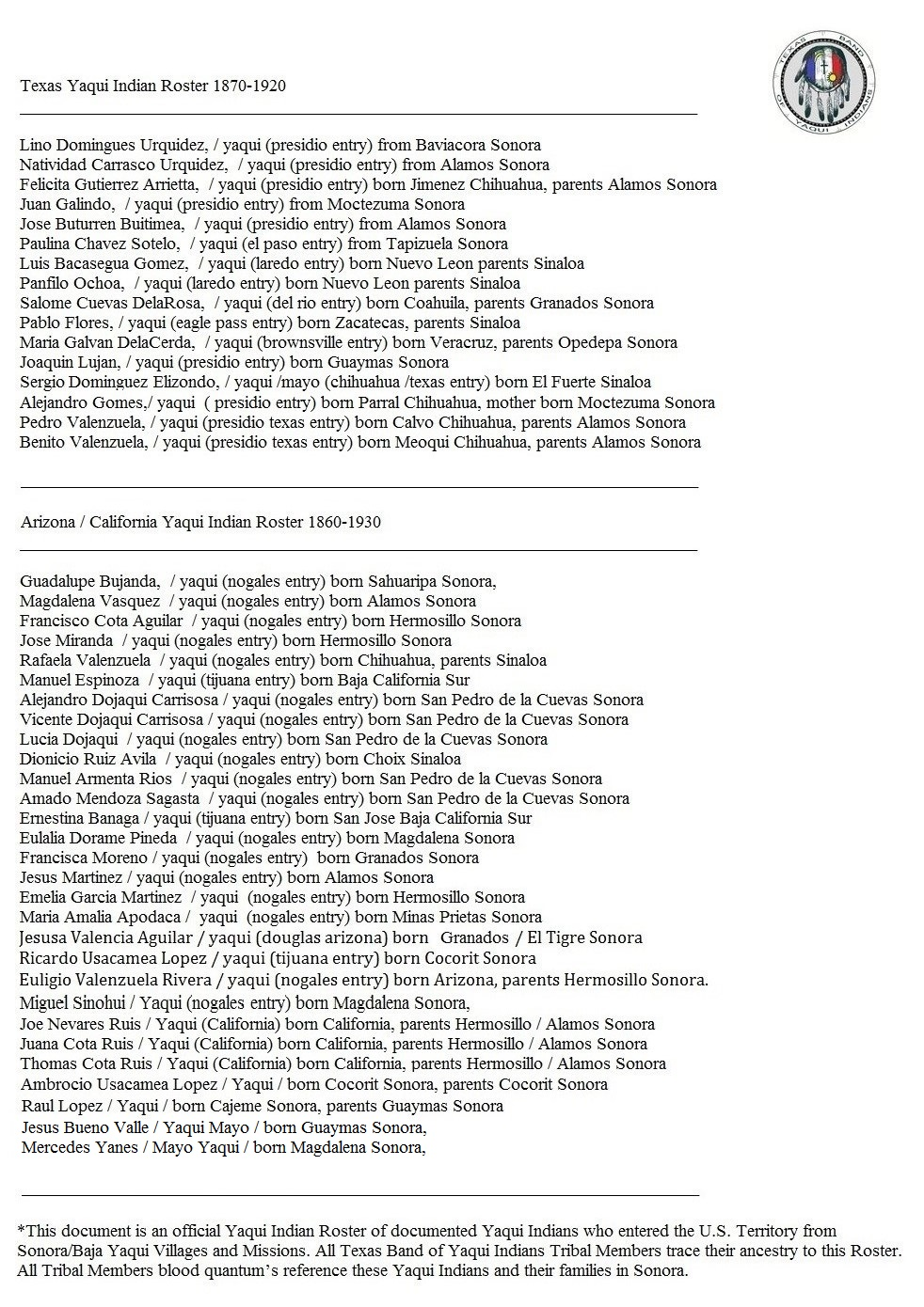 Original Yaqui families for Texas, Arizona, New Mexico and California